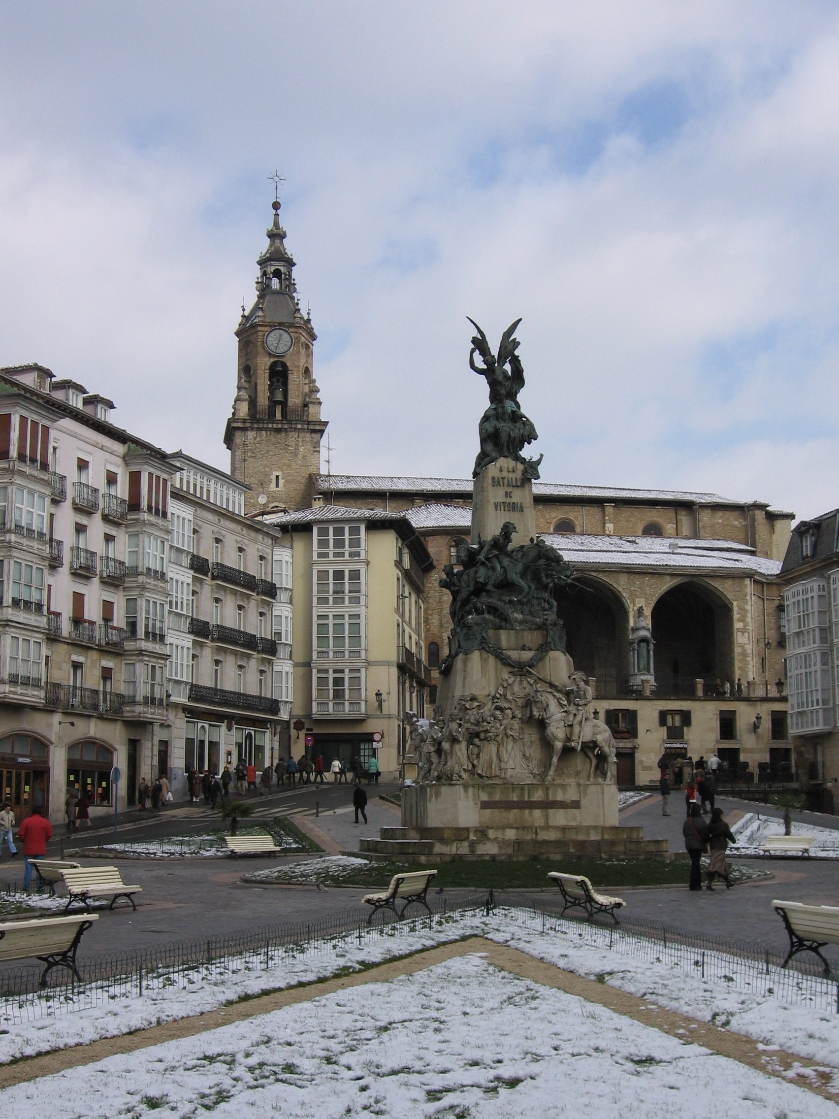 Vitoria, Basque Country, Spain, Plaza de la Virgen Blanca